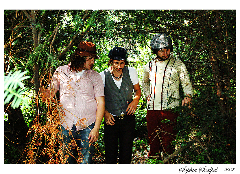 Portugal. The Man May 2007 in Dortmund, Germany